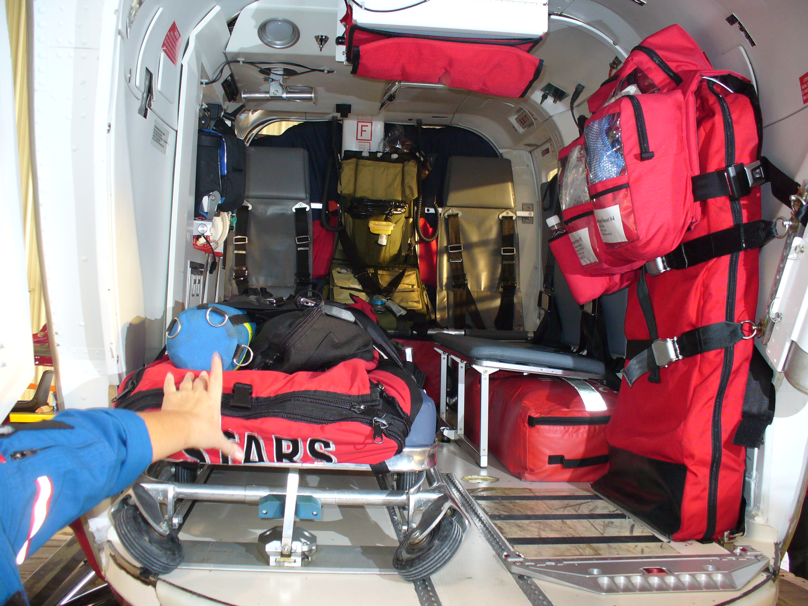 Looking inside a STARS helicopter.